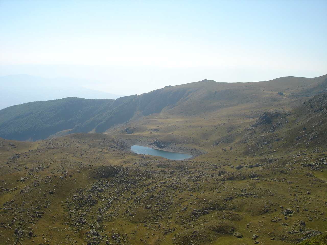 Glacial lake Vevchanska Lokva on Jablanica mountain, Macedonia